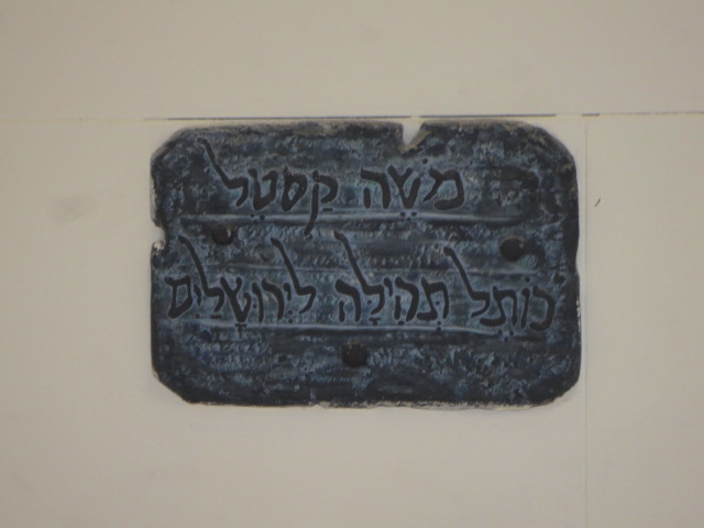 Glory to Jerusalem (1966) - Moshe Castel.